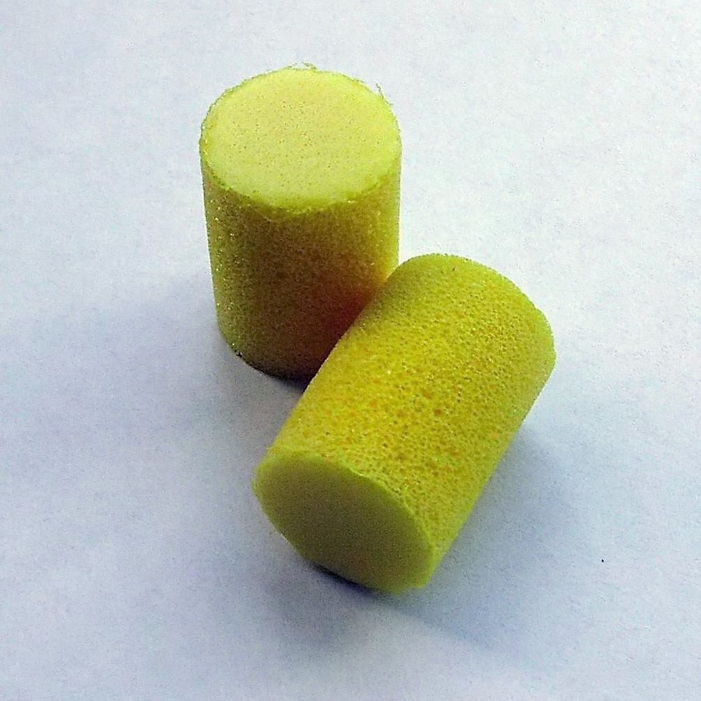 Basic foam earplugss. Bought in a pharmacy; they are very cheap.